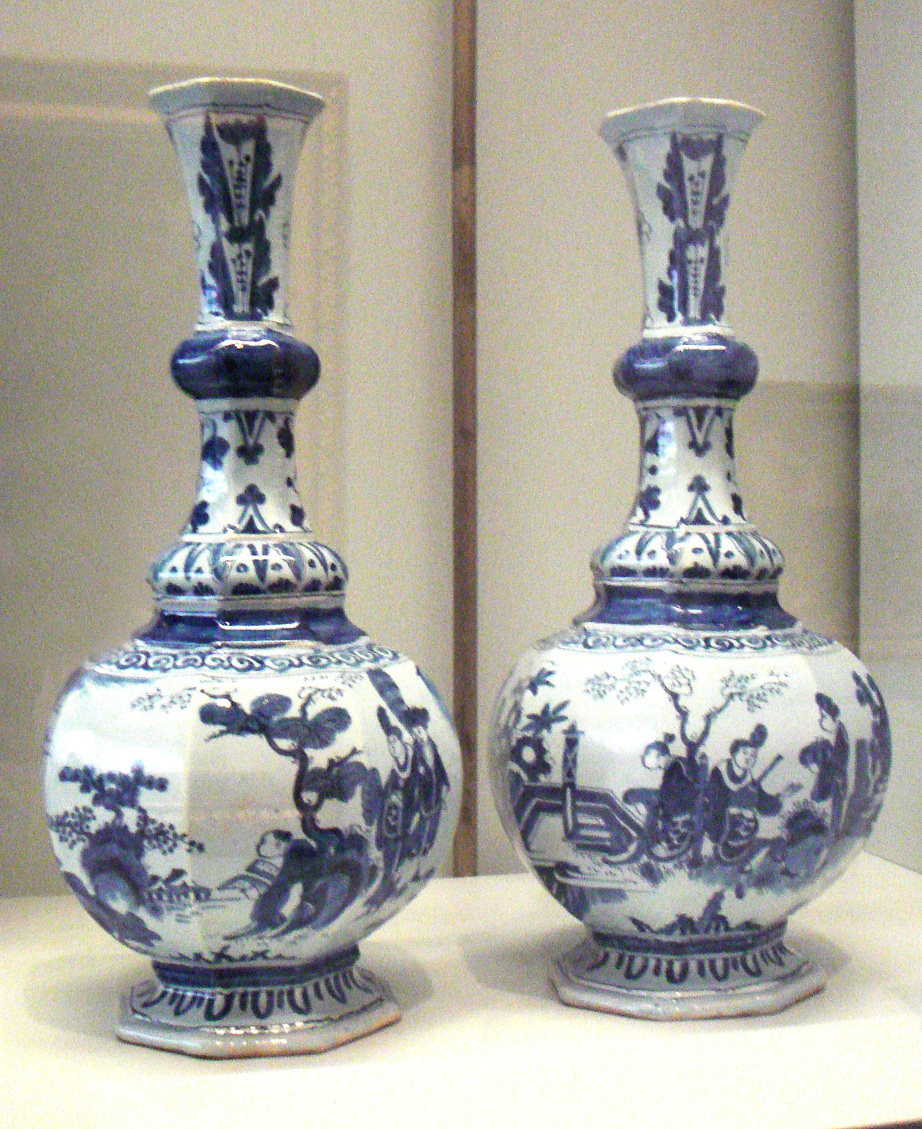 Nevers faience vases circa 1700